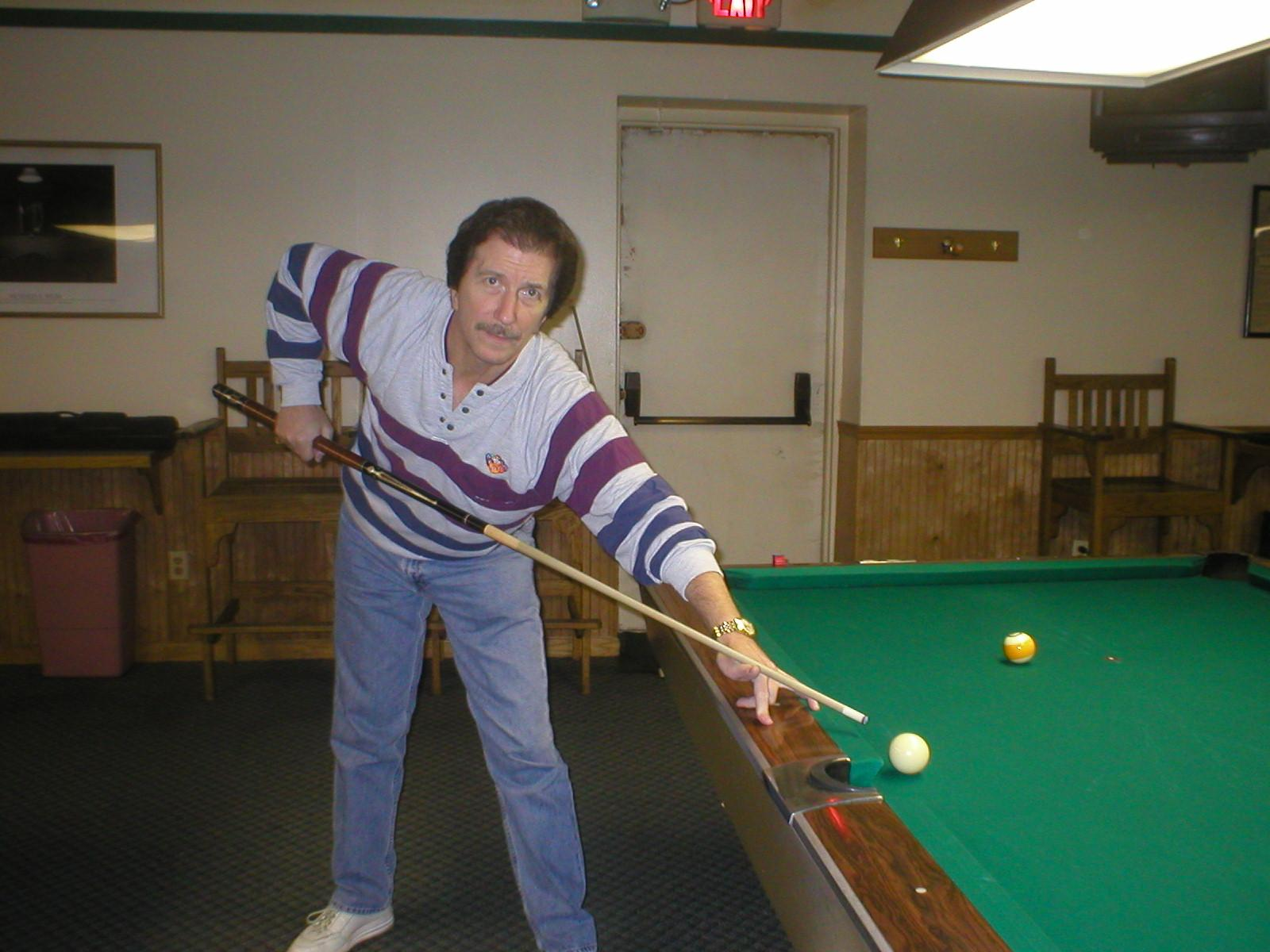 Jim Rempe Summary This is my personal photo that I took with my camera and is free to the public domain.